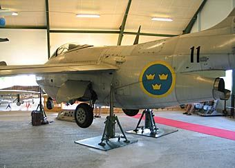 Saab S 29 Tunnan, a Swedish fighter aircraft